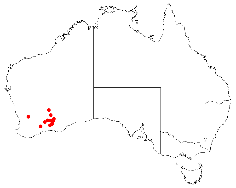 Bossiaea cucullata Occurrence data downloaded from 11 September 2018 AVH